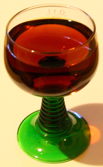 Mahonia wine, 18 years old, c. 16 % Vol. alcohol, private production